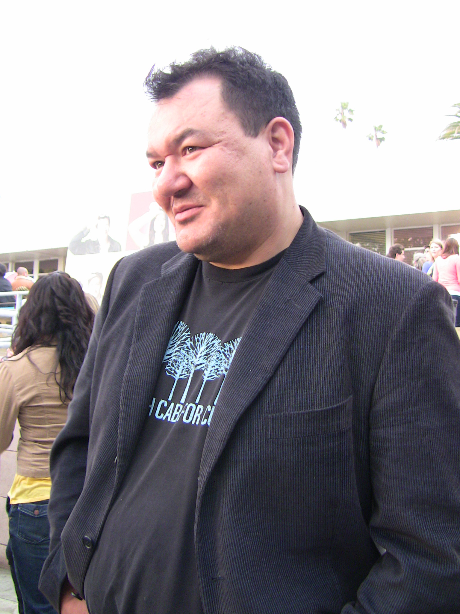 Actor Patrick Gallagher at the premiere party of TV series Glee, Santa Monica, California.